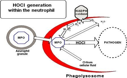 A schematic representation of hypochlorous acid (HOCl) production during the oxidative burst process.